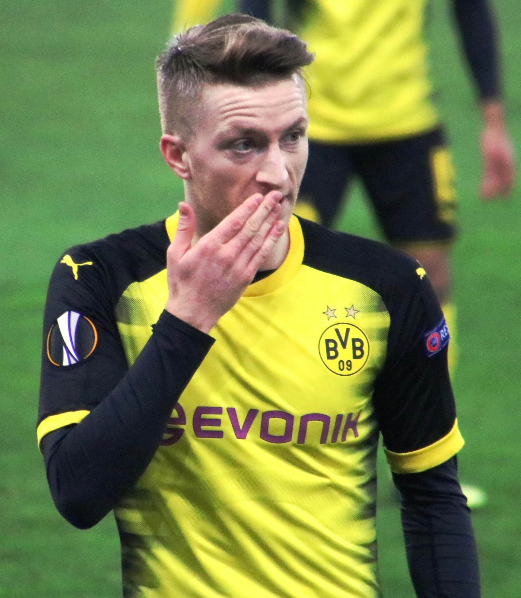 Europa League Achtelfinale Rückspiel 15. März 2018